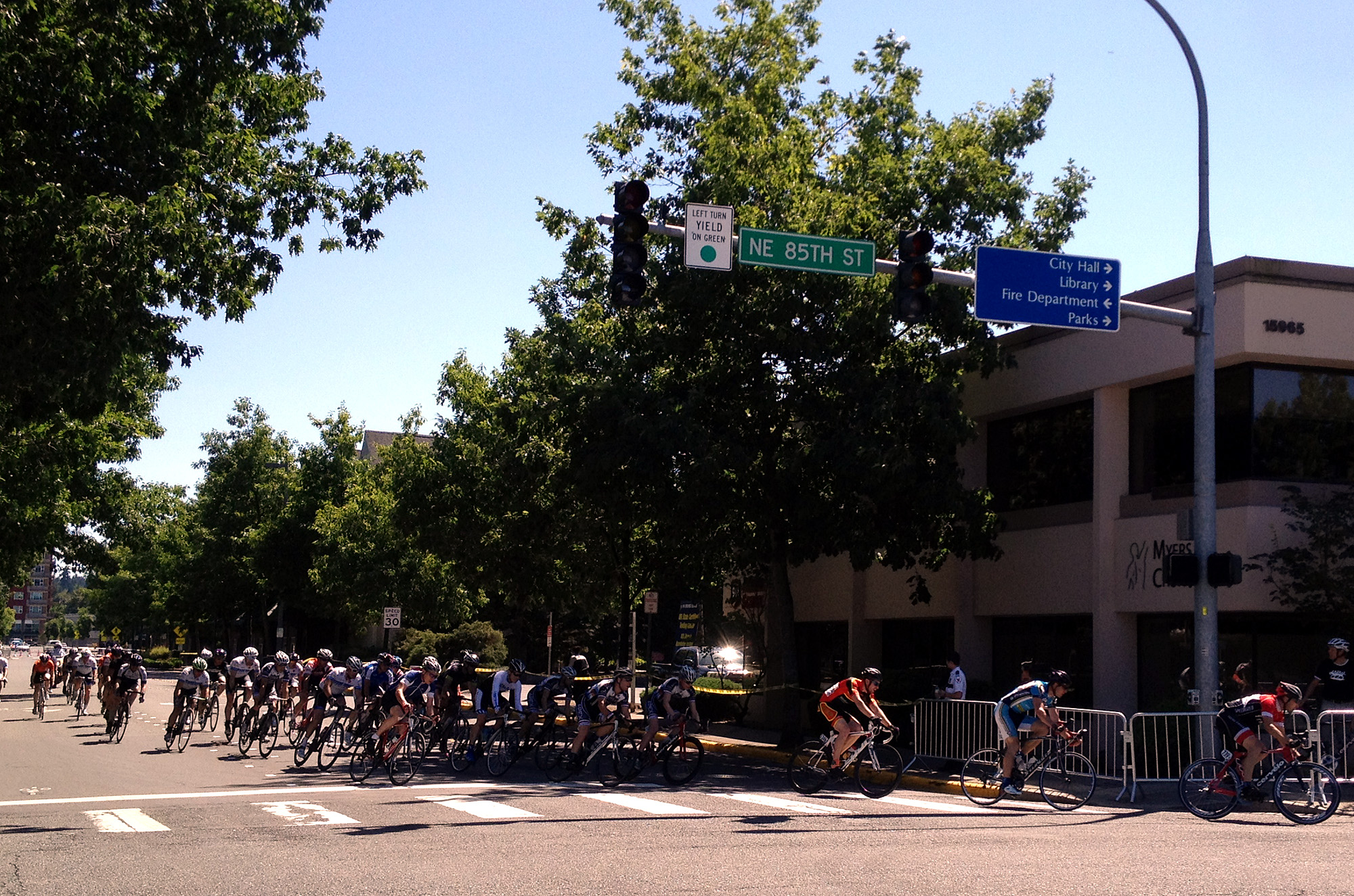 The picture of Redmond derby days event